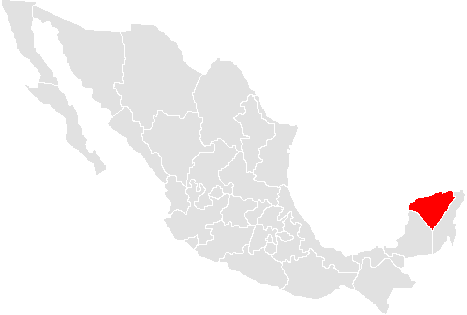 A map of the Mexican state of yucatan made by me